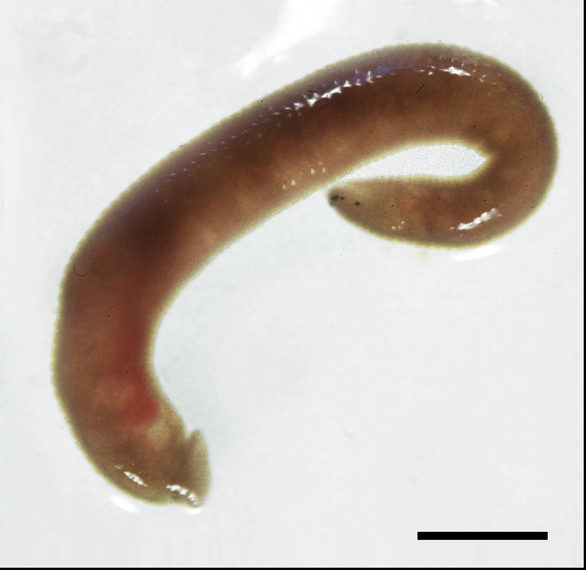 Juvenile European land leech (Xerobdella lecomtei)